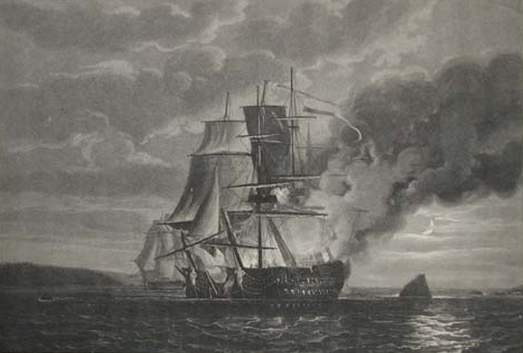 The Action between the Mars and Hercule on the Night of the 21st. April 1798. To the Memory of The Intrepid Captn. Alexr. Hood